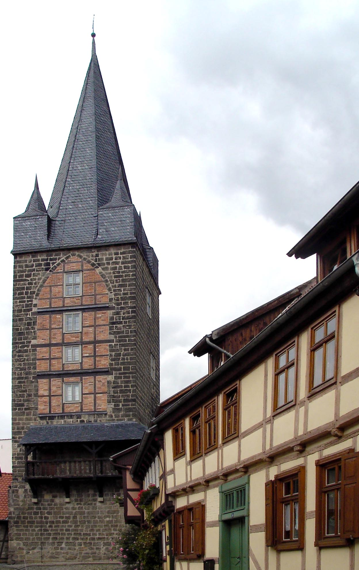 tower Schreckensturm in Quedlinburg (Germany)